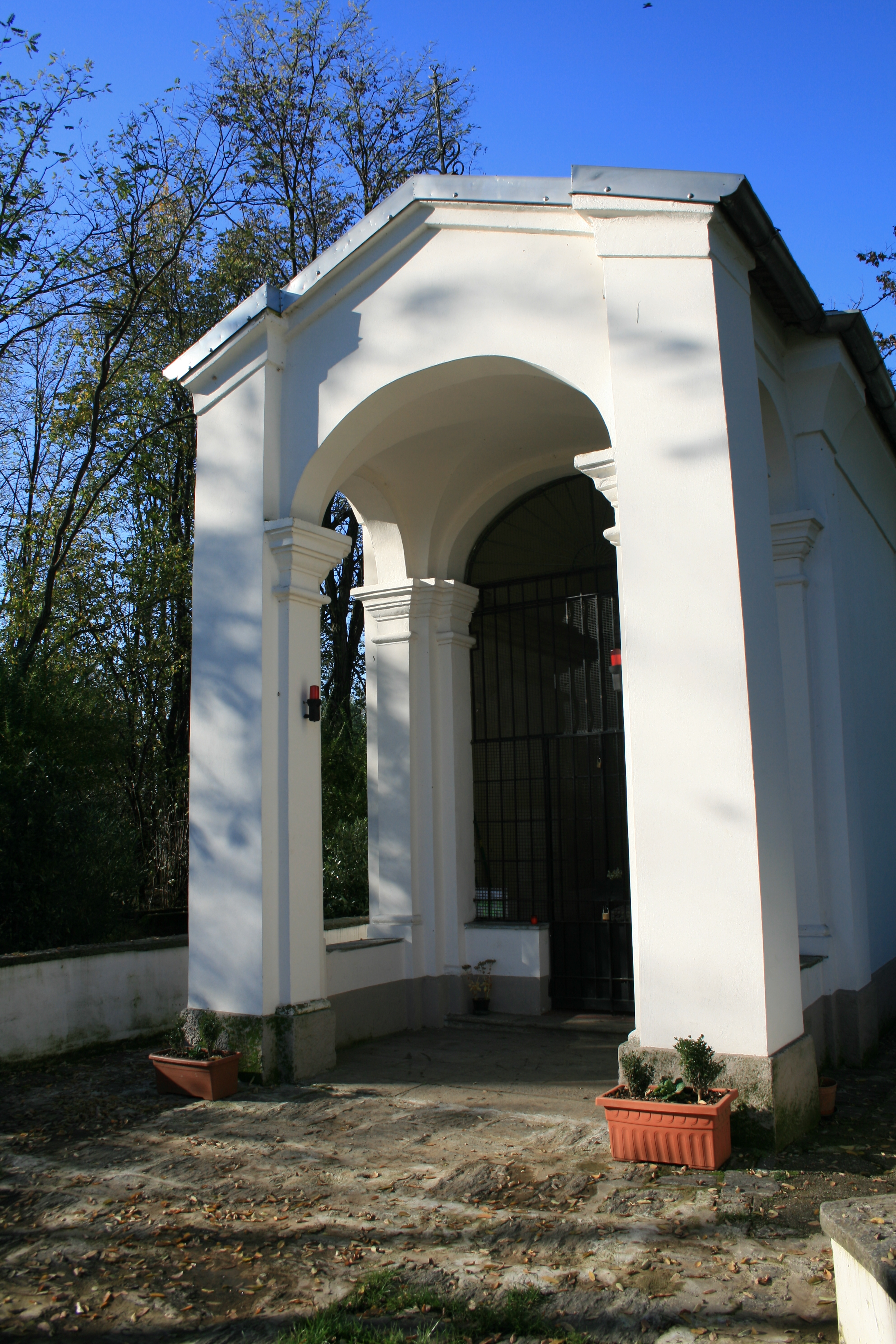 "Il Lazzaretto" funeral Chapel in memory of the plague of 1630. The original chapel was built in 1600s, and it was recently rebuilt after a long period of defection.